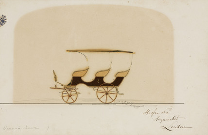 Drawing by J Gilfoy of a design for a horse-drawn charabanc with three rows of seats produced by the coachbuilders Hooper & Co. The firm was established in 1807 in Haymarket, London, were awarded their first Royal patronage in 1830, and gained a reputation for unrivalled quality and craftsmanship. In the 20th century they switched to building coachwork for motor cars, and are probably best known for their association with Rolls-Royce. Charabancs, introduced into Britain from France in about 1850, varied much in construction, design and size. They were pulled by four horses, and initially were popular for transporting shooting parties.